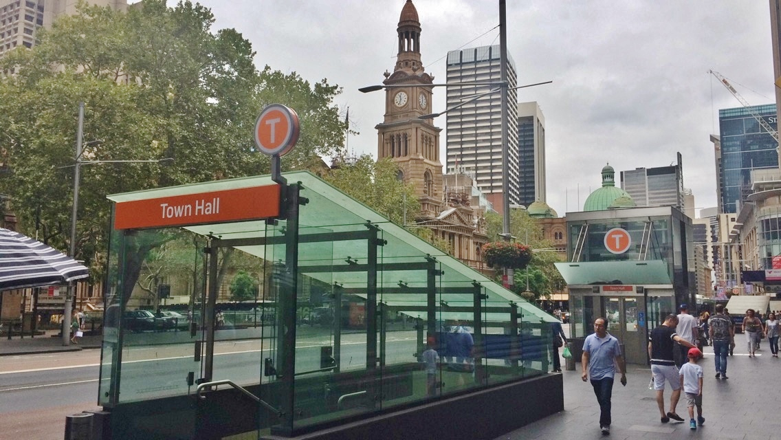 A view of an entrance to Town Hall railway station on the Sydney Trains network. This entrance is one of four on George Street; the station is located directly underneath the road. Sydney Town Hall itself can be seen in the background.